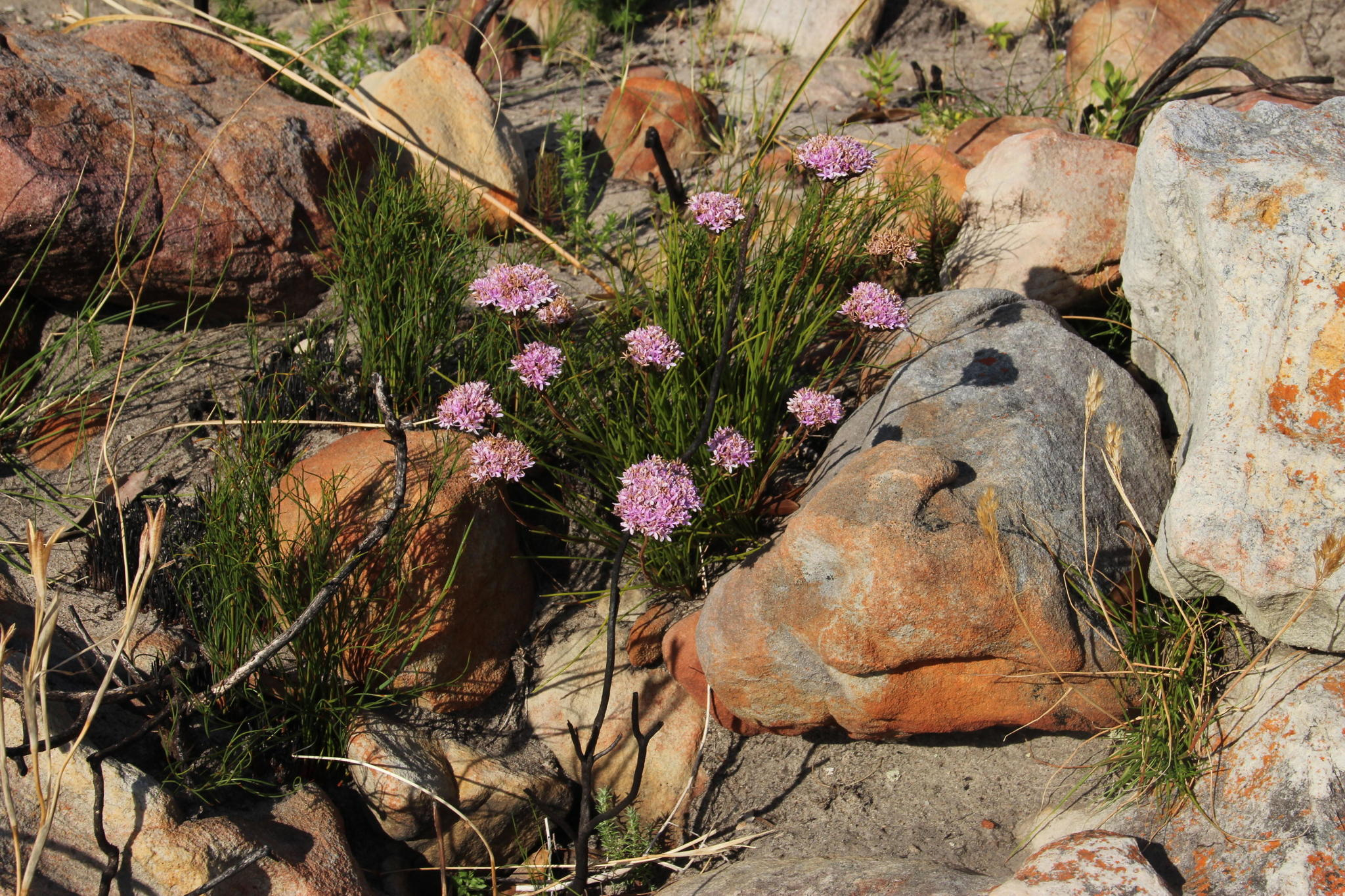 Plampers, Corymbium africanum subsp. scabridum, photographed by Tony Rebelo, on 7 December 2015, at Lakeside ascent to Muizenberg Peak: Silvermine section Table Mountain National Park, Simon's Town County, Western Cape province of South Africa